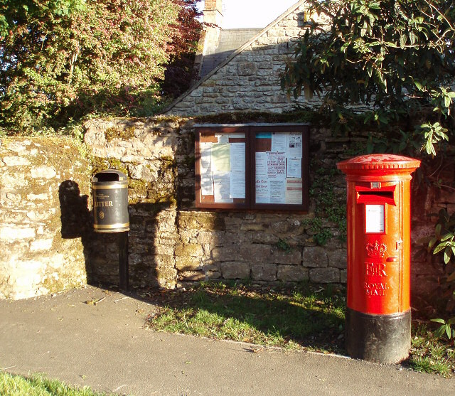 Litter bin, noticeboard and postbox in Helmdon, Northamptonshire